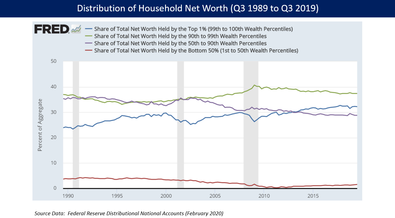 Trends in share of wealth held by various wealth groups 1989-2019